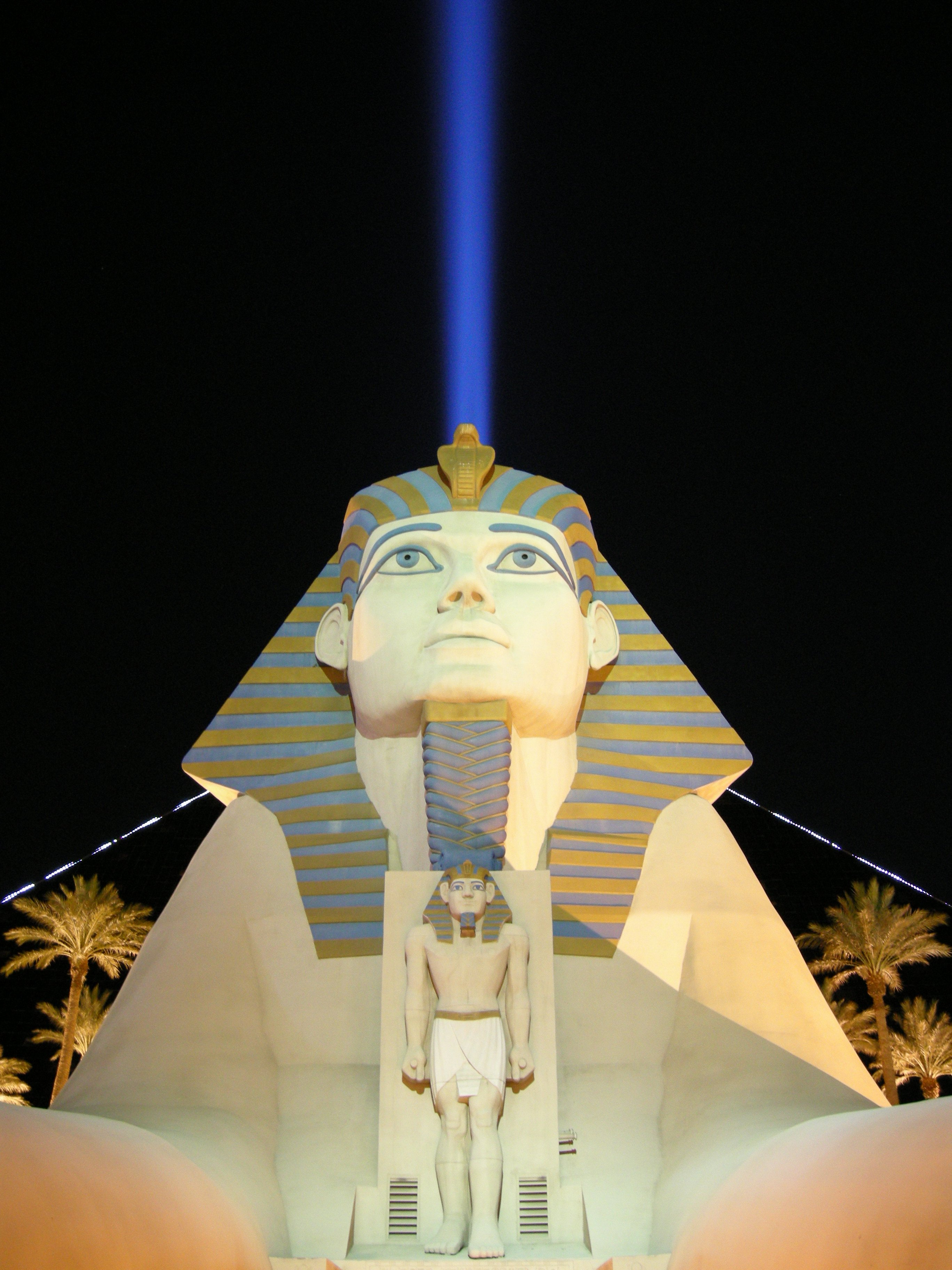 Luxor hotel & casino by night